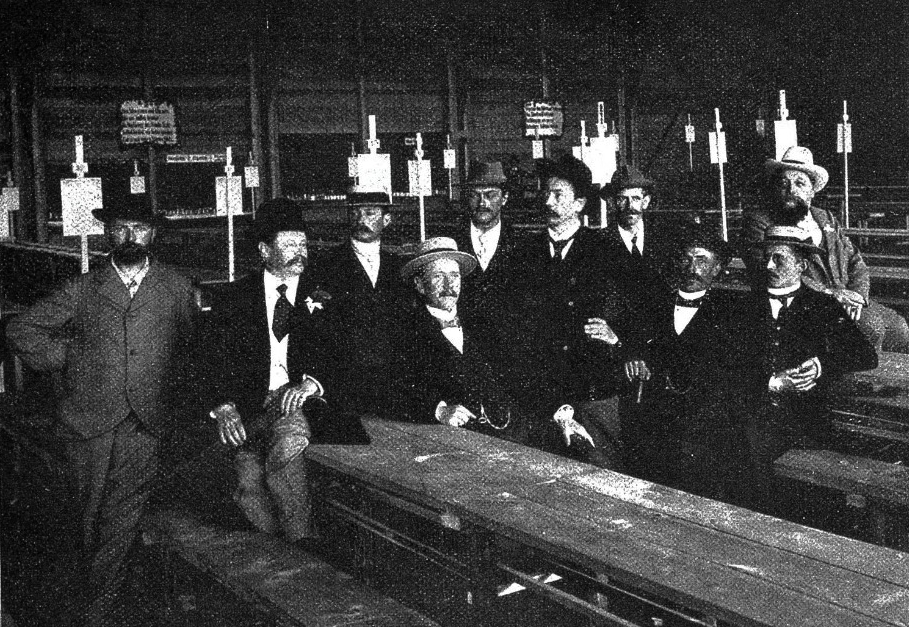 Otto Steiger (1865–1931) Bildhauer schuf das am 12. Juli 1903 eingeweihte Vögelinsegg-Denkmal.